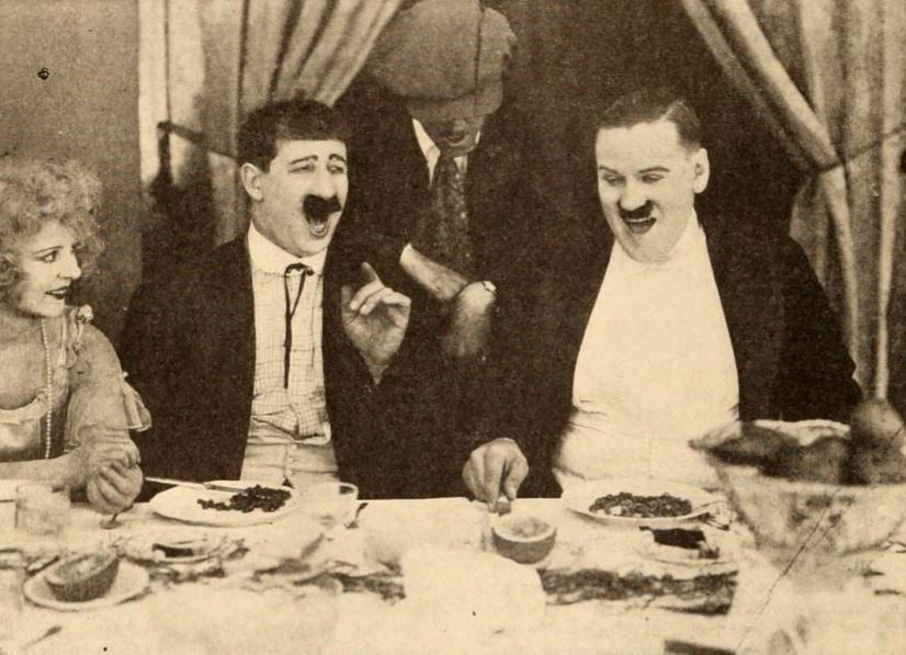 Still taken between scenes from the American short comedy film When Spirits Move (1920) with Madge Kirby, Hank Mann, director Charley Chase (with head down), and Vernon Dent, on page 40 of the August 7, 1920 Exhibitors Herald. While the caption does not list the film, When Spirits Move is the only film listed in the IMDB with these three actors and director.